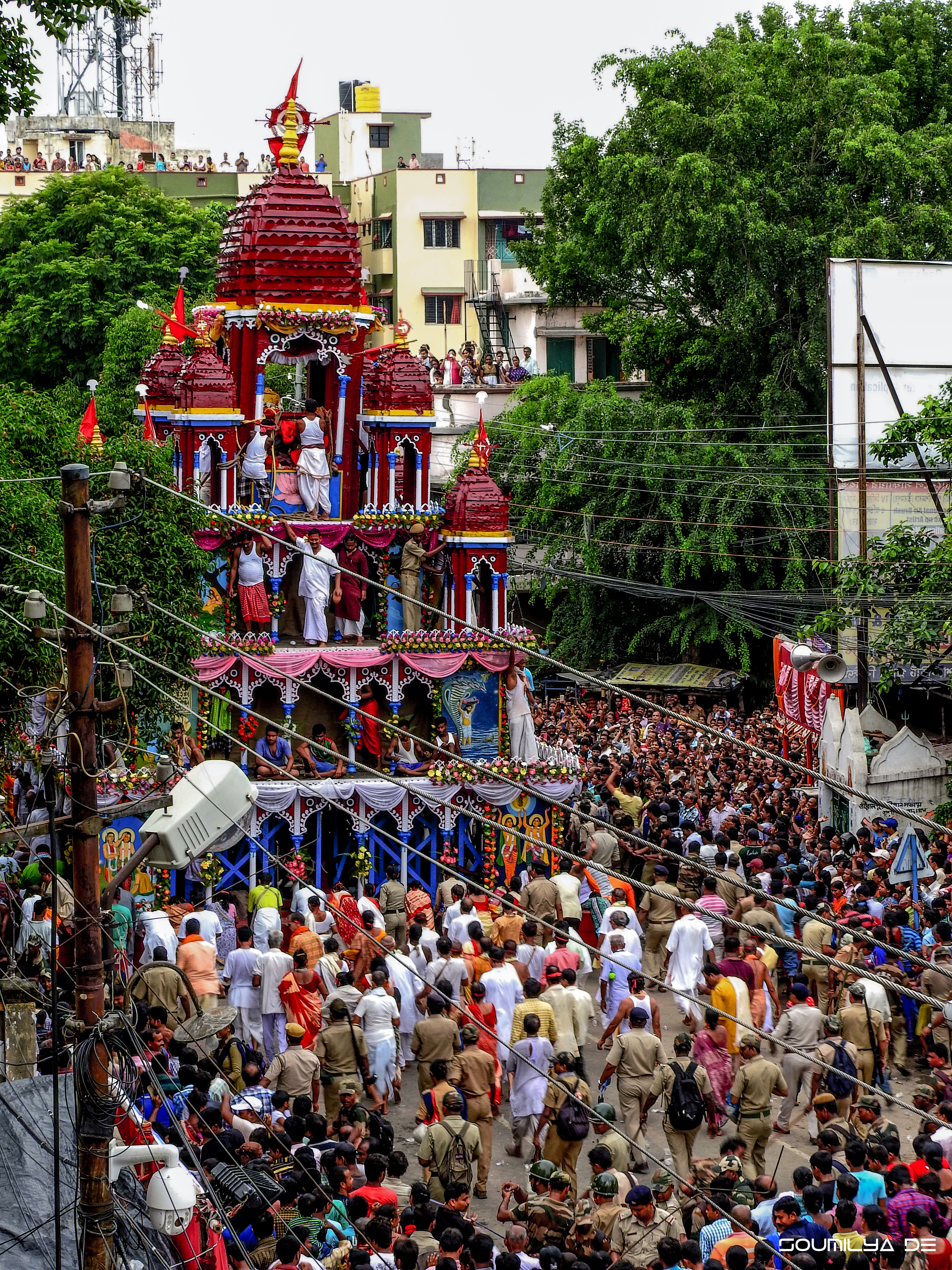 Mahesh Rath Yatra